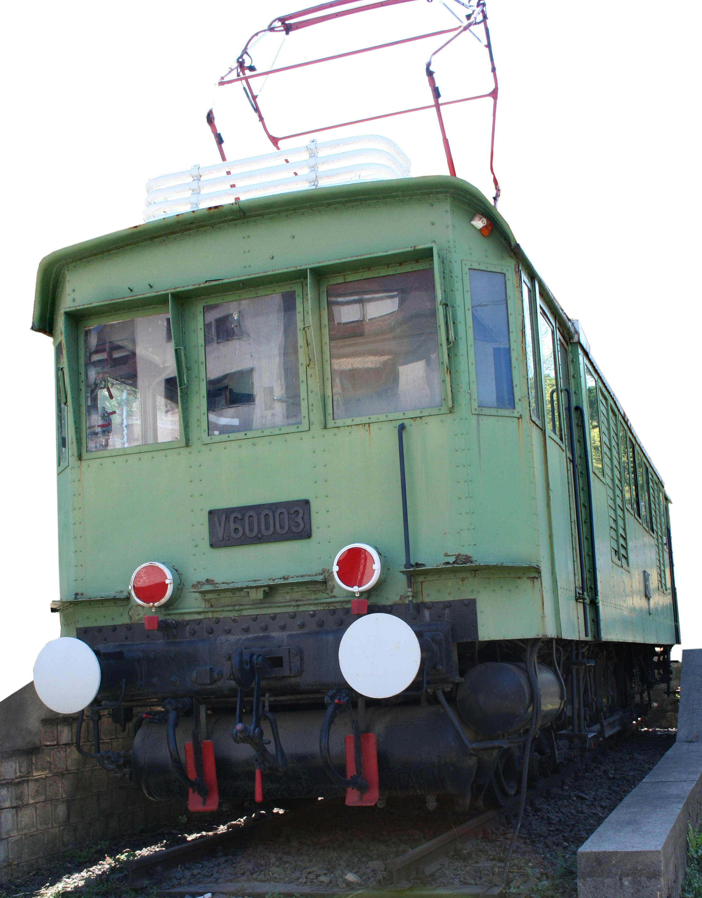 MÁV V60 Kando's electric locomotives Hungary, Budapest